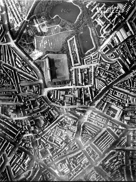 This image comes from the Gladstone Adams collection. Grey’s monument and Eldon Square can be picked out centre right. St James Park and Leazes Park stand out clearly in the upper half. Reference: TWAS: DT.GA.4.1-4 (Copyright) We're happy for you to share this digital image within the spirit of The Commons. Please cite 'Tyne & Wear Archives & Museums' when reusing. Certain restrictions on high quality reproductions and commercial use of the original physical version apply though; if you're unsure please . To purchase a hi-res copy please quoting the title and reference number.